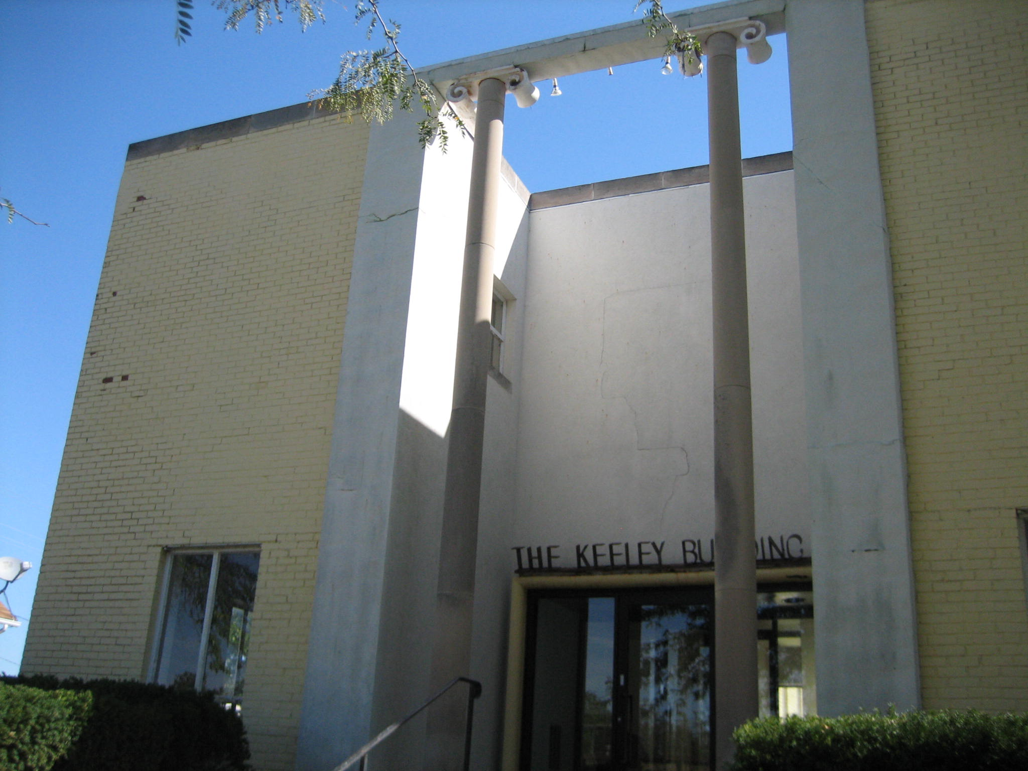 Dwight, Illinois, USA. Downtown. Dwight, Illinois, USA. Keeley Building.